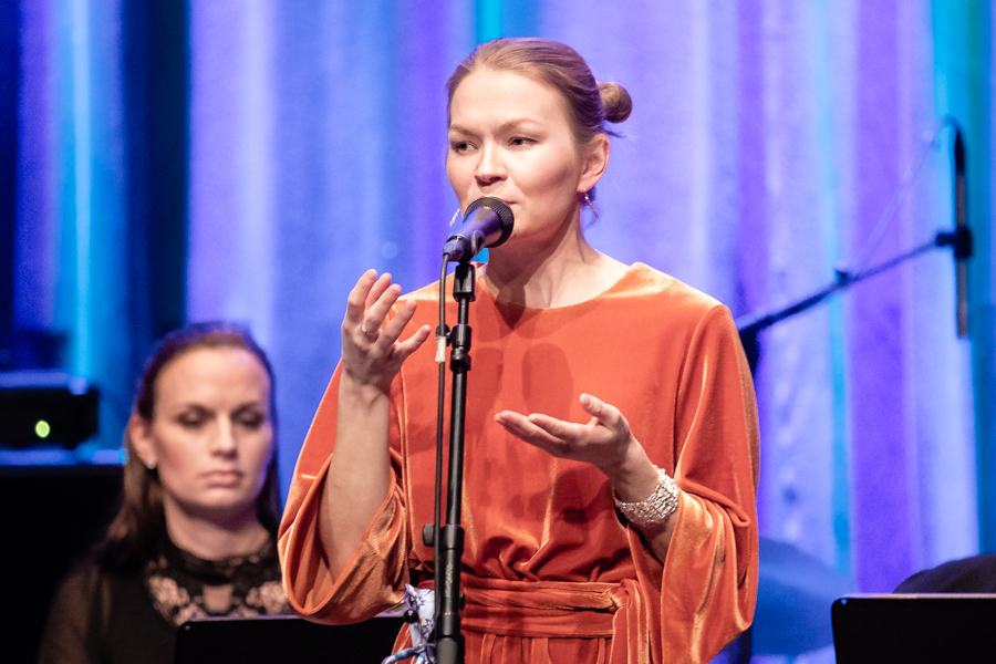 Marja Mortensson at Cosmopolite. The concert was part of Oslo World and took place on 30. October 2019 in Oslo. Lineup:Marja Mortensson (vocal)Daniel Herskedal (tuba)Trondheimsolistene (orchestra)